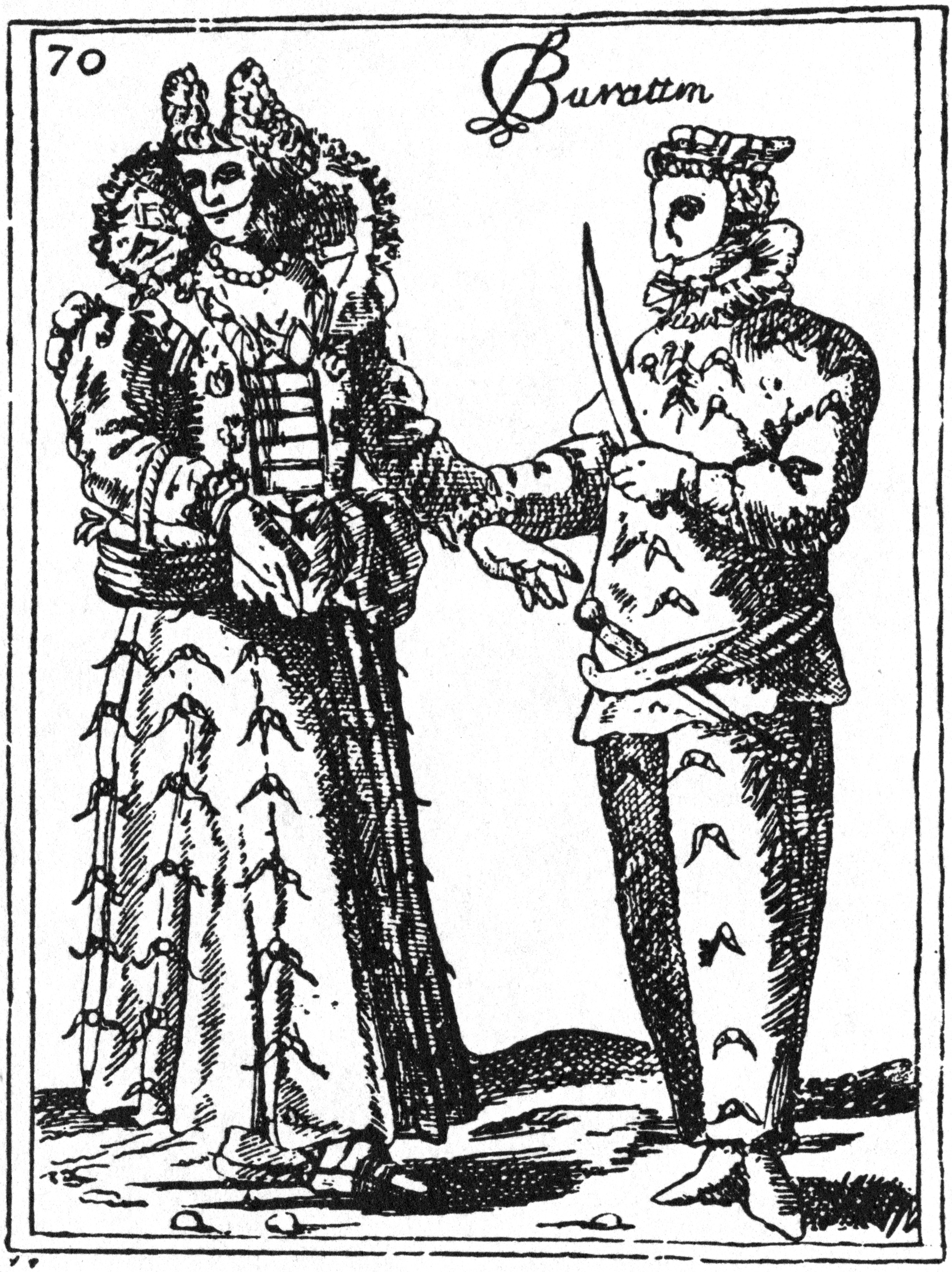 "Burattino", a character of the commedia dell'arte, engraving reproduced in Duchartre 1929, p 301